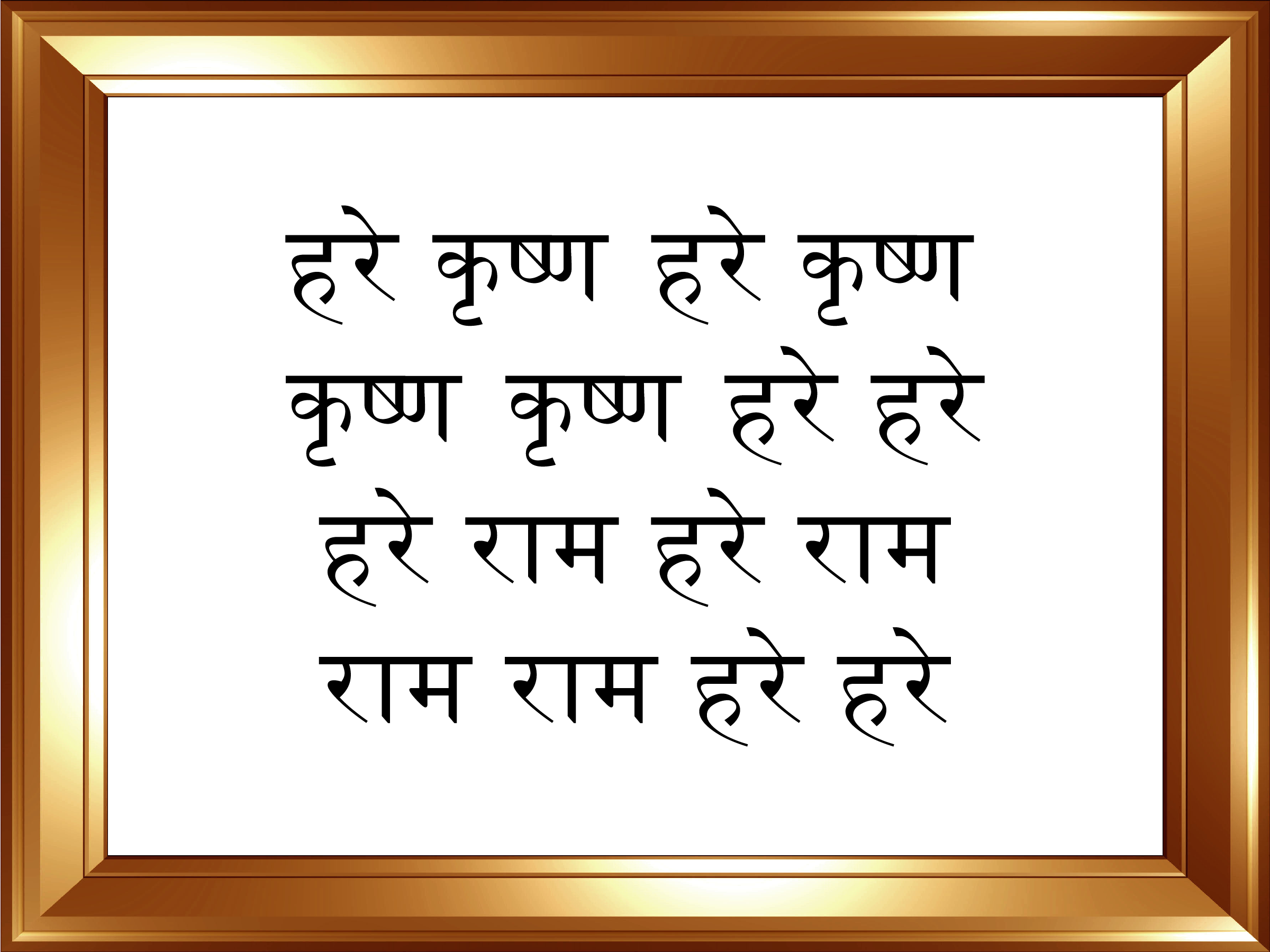 The Hare Krishna maha-mantra, in Devanagari.